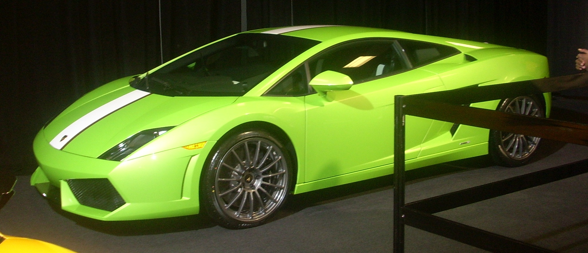 2010 Lamborghini Gallardo LP 550-2 Valentino Balboni photographed in Montreal, Quebec, Canada at the 2010 Montreal International Auto Show.